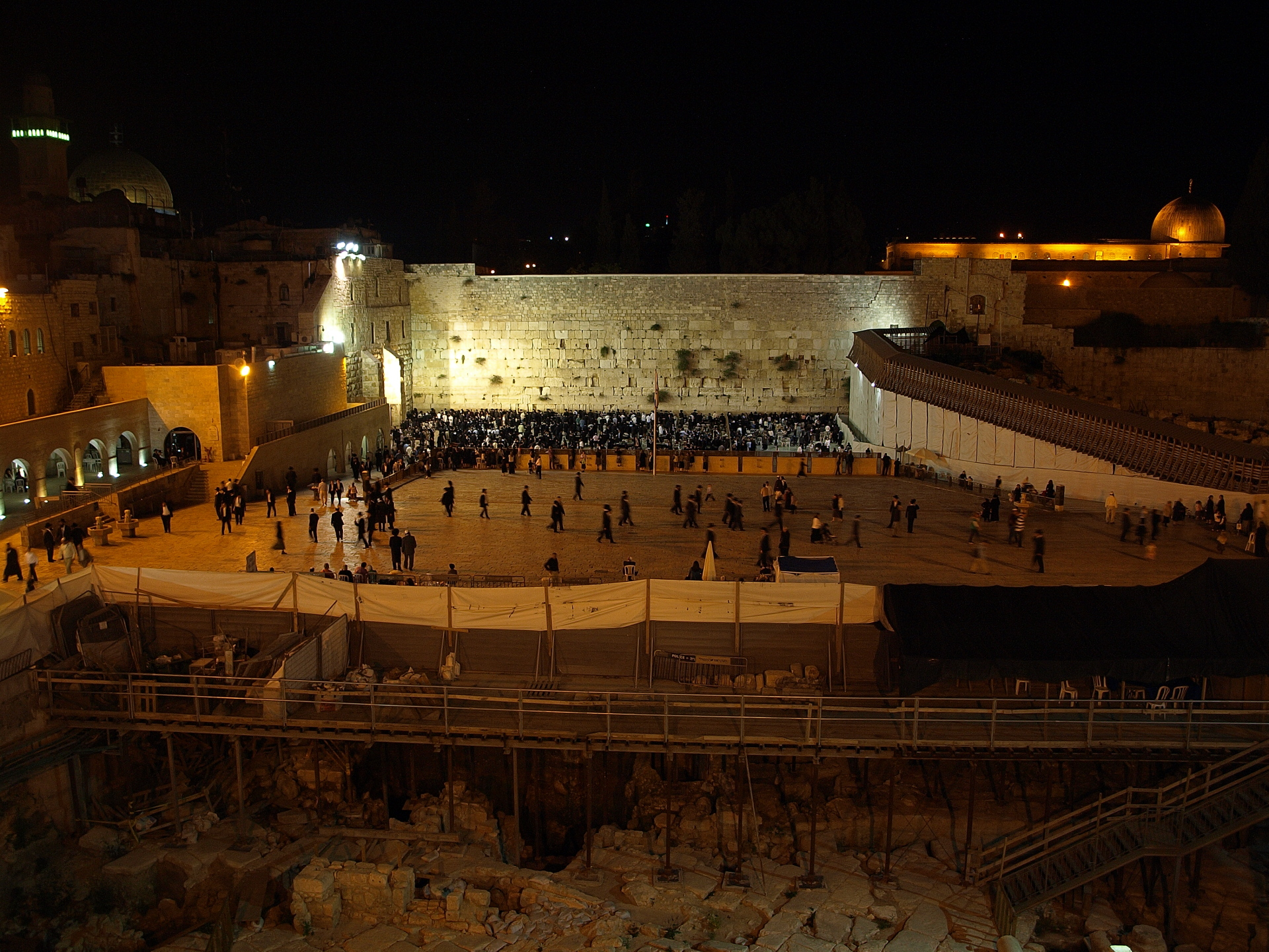 The Western Wall in the Old City of Jerusalem at night